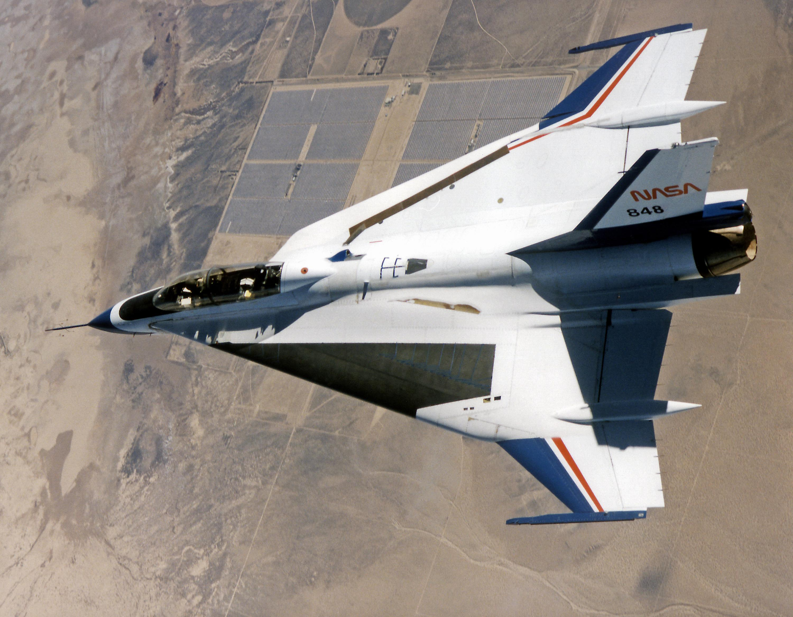 This in-flight view of NASA's two-seat F-16XL #2 research aircraft clearly shows that the left and right wings are definitely not mirror images of each other. Nevertheless, pilots who have flown the highly modified aircraft at NASA's Dryden Flight Research Center, Edwards, California, state that the asymmetry created by modifications to its left wing for the Supersonic Laminar Flow Control (SLFC) project was easily handled by the F-16XL's flight controls, and that the plane handled well. The unique aircraft flew 45 research missions over a 13-month period in the SLFC program which ended November of 1996. The project demonstrated that laminar or smooth airflow could be achieved over a major portion of a wing at supersonic speeds by use of a suction system. The system drew a small part of the boundary layer air through millions of tiny laser-drilled holes in a titanium "glove" fitted to the upper left wing. Data acquired during the program will be used to develop a design code calibration database which could assist designers in reducing aerodynamic drag of a proposed second-generation supersonic transport.